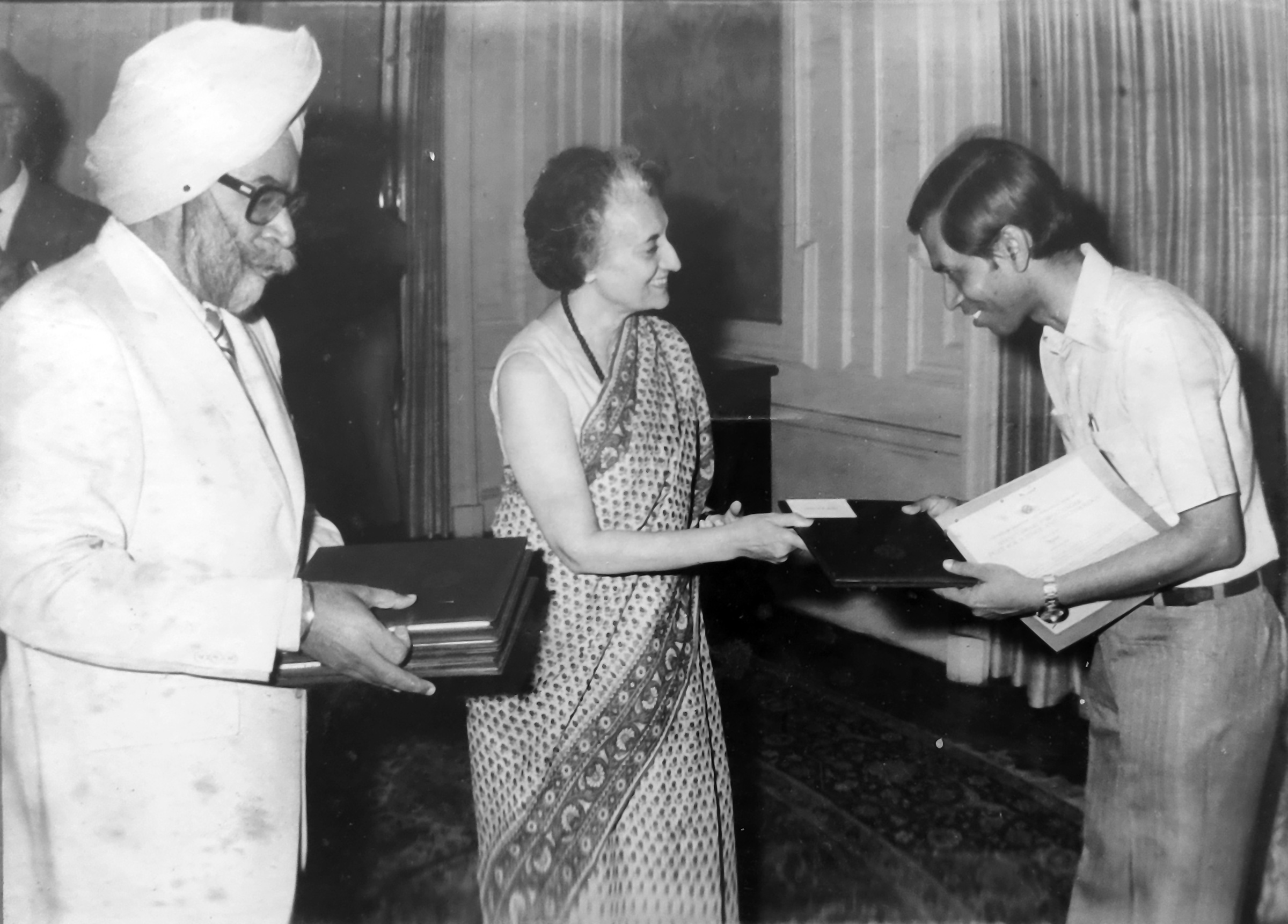 Deb (right) receiving the Council of Scientific and Industrial Research’ Shanti Swarup Bhatnagar Prize from then Prime Minister of India, Shrimati Indira Gandhi, 1981